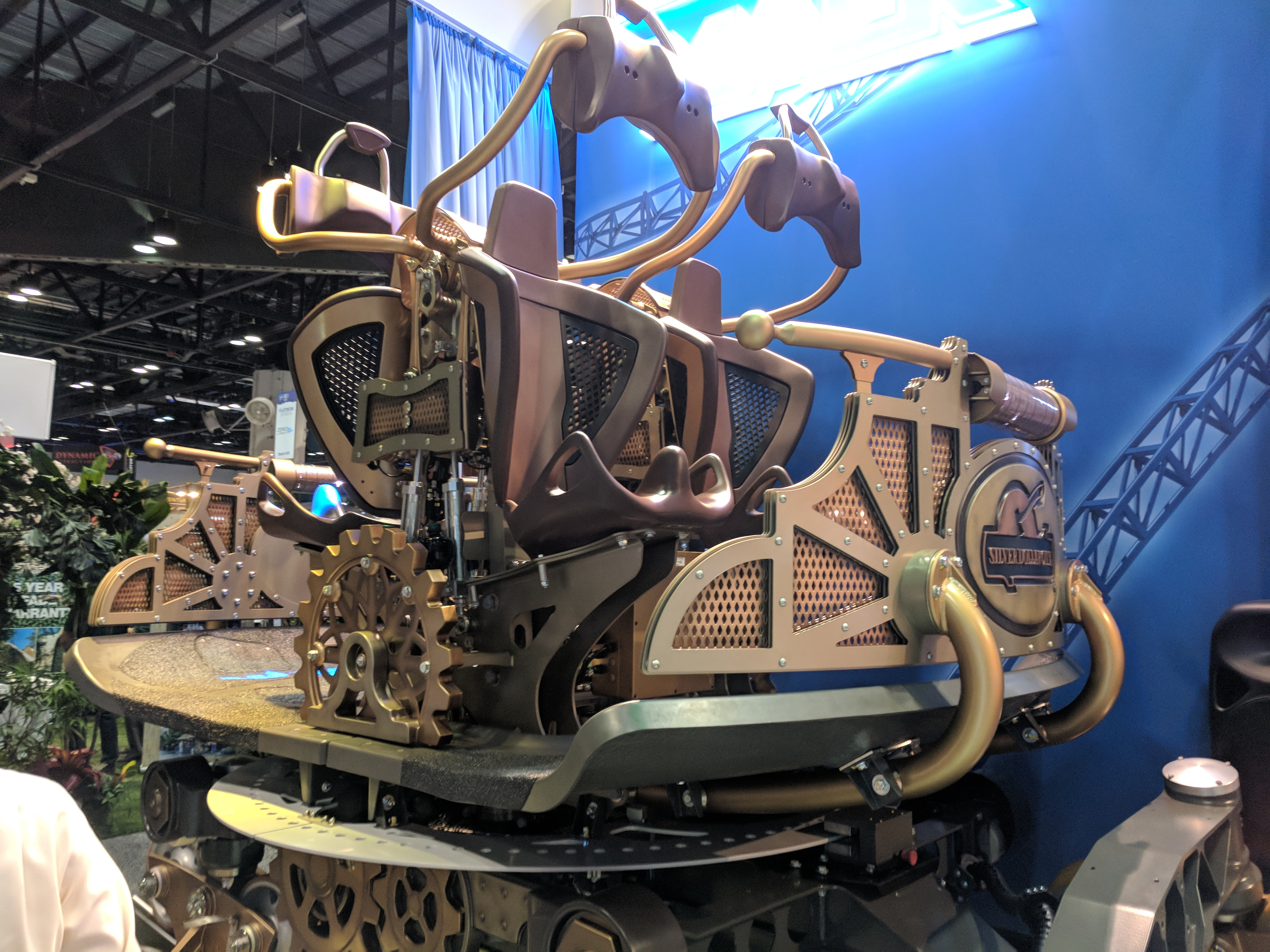 The car for the Time Traveler ride that will be at Silver Dollar City at the Mack Rides booth at IAAPA IAE 2017 Note: In accordance with IAAPA IAE rules, permission was granted from the exhibitor to take this photograph and publish it for use on Wikipedia.